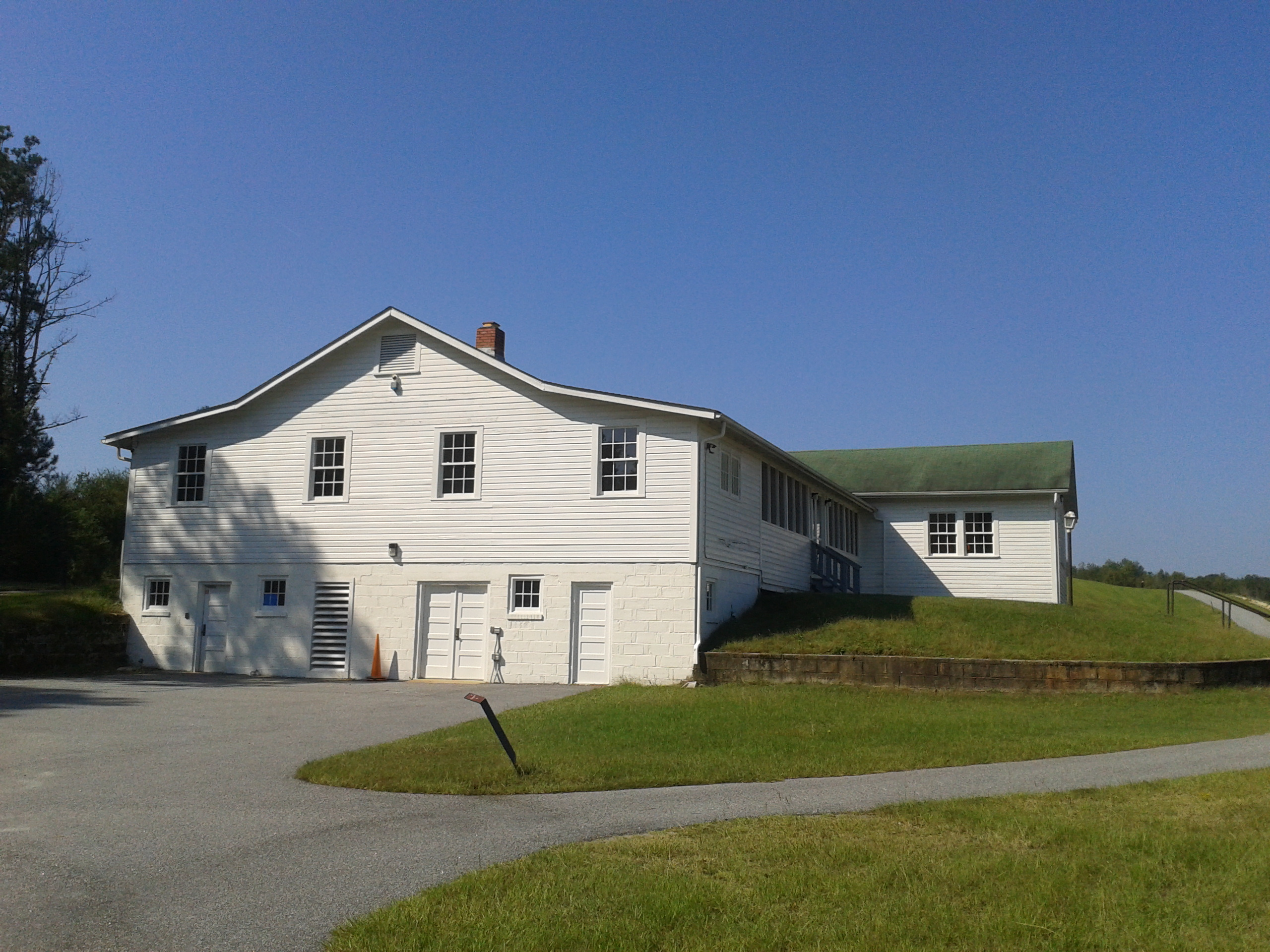 Tuskegee Airmen National Historic Site, Tuskegee, Alabama